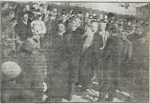 Welcoming of Ante Pavelić and Gustav Perčec in Vidin, 19 April 1929